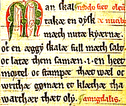 Medieval Danish Walnut oil recipe from Libellum De Arte Coquinaria Аҧсшәа: Dansk opskrift på nøddeolie fra Libellum De Arte Coquinaria